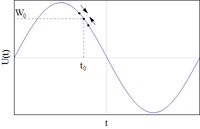 The scheme that illustrates autophasing principle for ultrarelativistic beam in synchrotron.